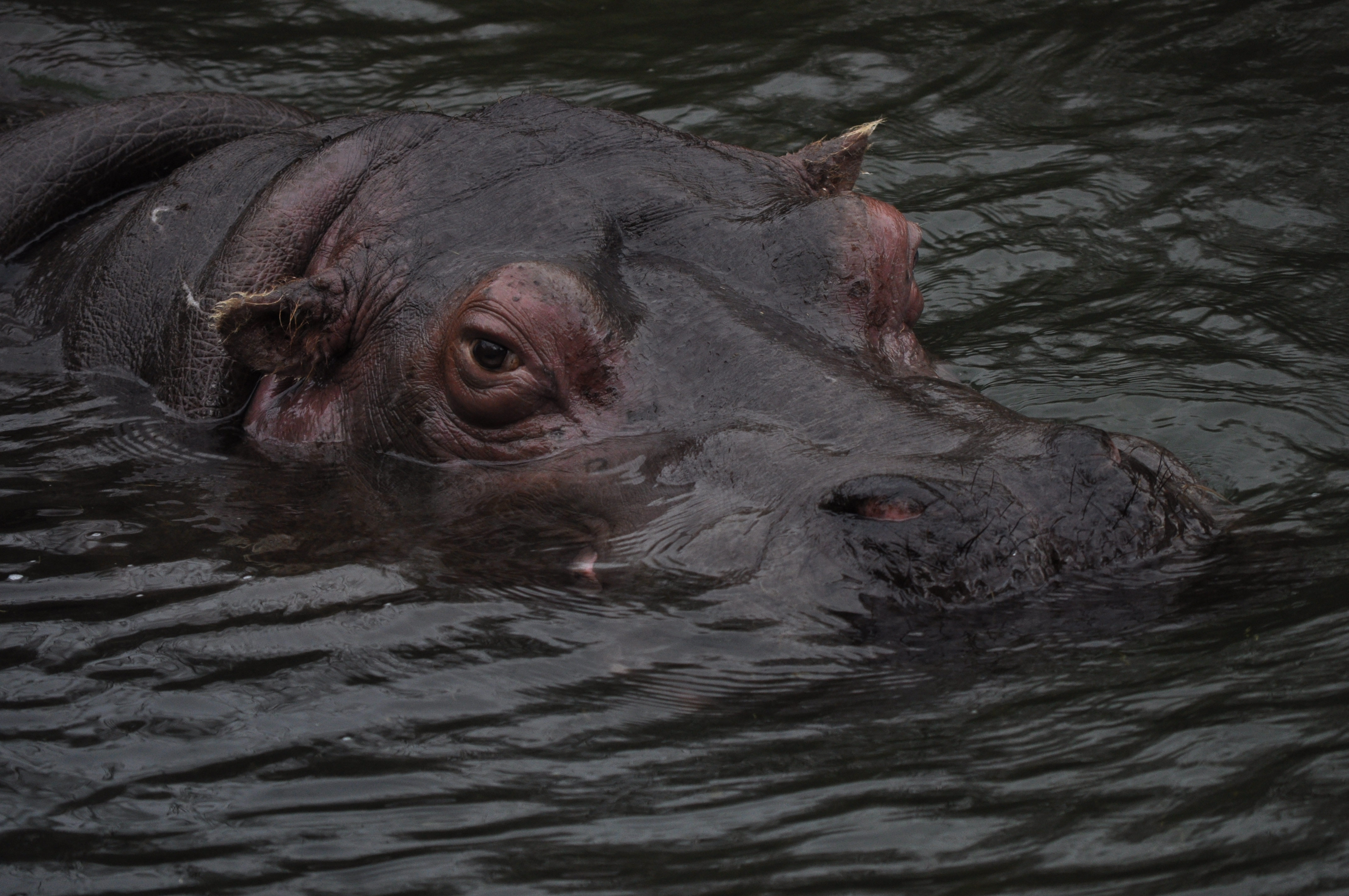 Hippopotamus, Woodland Park Zoo, Seattle, Washington.